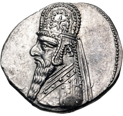 Coin of Gotarzes I (cropped), Ectbatana mint.